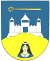 Coat of Arms of Garz